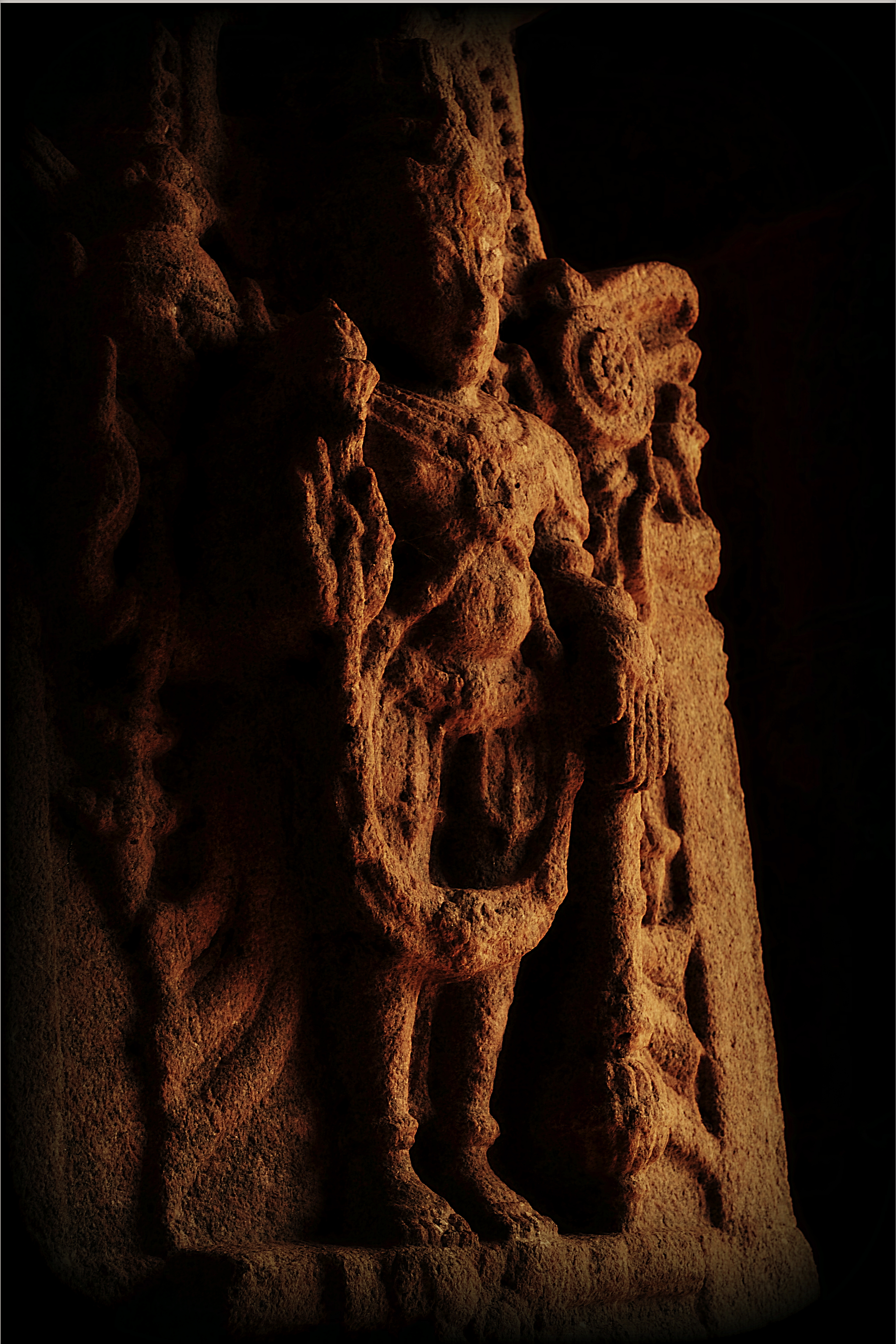 Vishnu Idol adorning Entrance